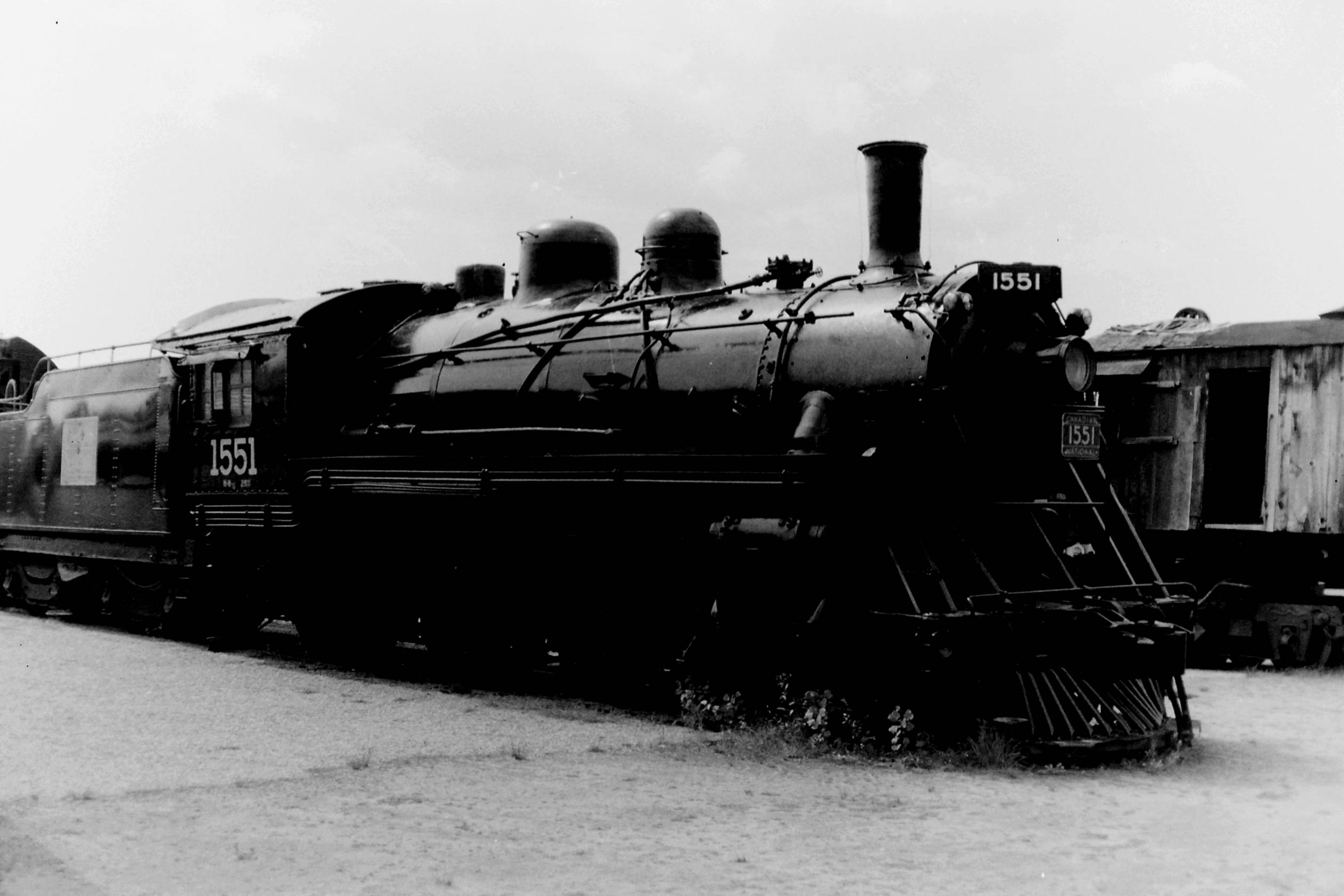 Canadian National Railways (ex-Canadian Northern Railway) Class H-6-g 4-6-0 No.1354 (renumbered 1551 in 1956); built by MLW (50778 of 1912). At Steamtown, Bellows Falls, 8/70.